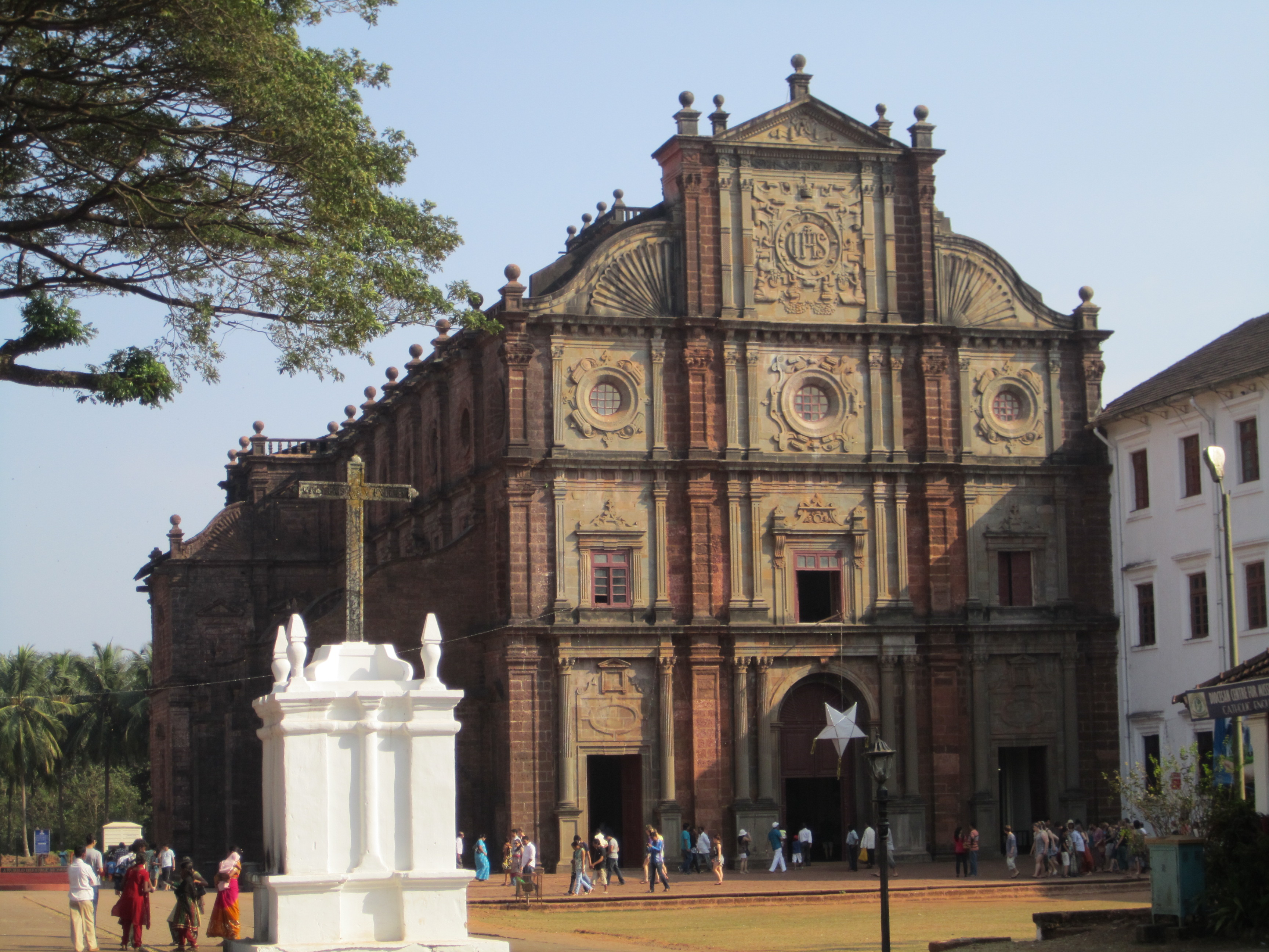 Basilica of Bom Jesus